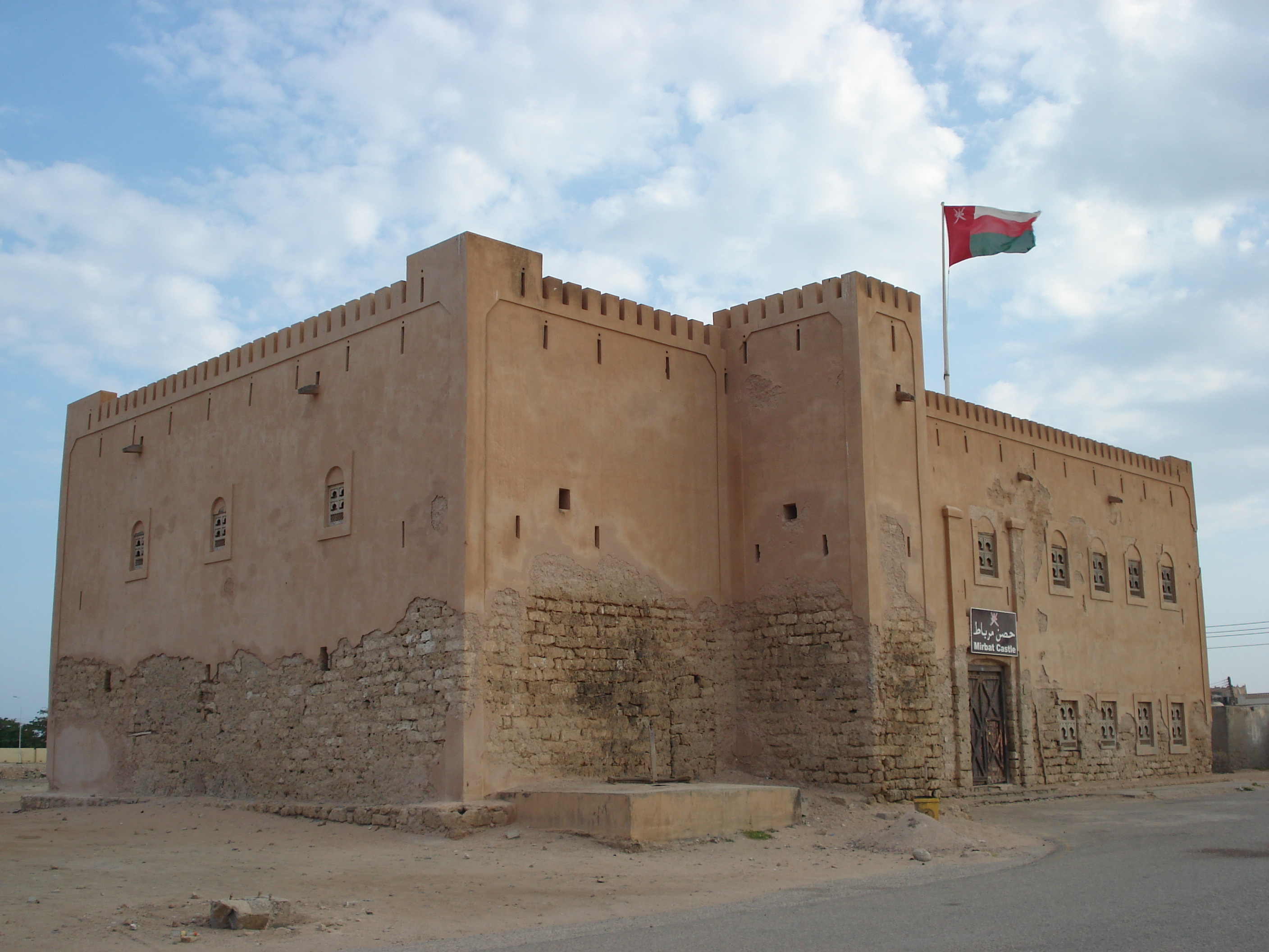 Mirbat Castle, site of the Battle of Mirbat, in Dhofar, Oman.